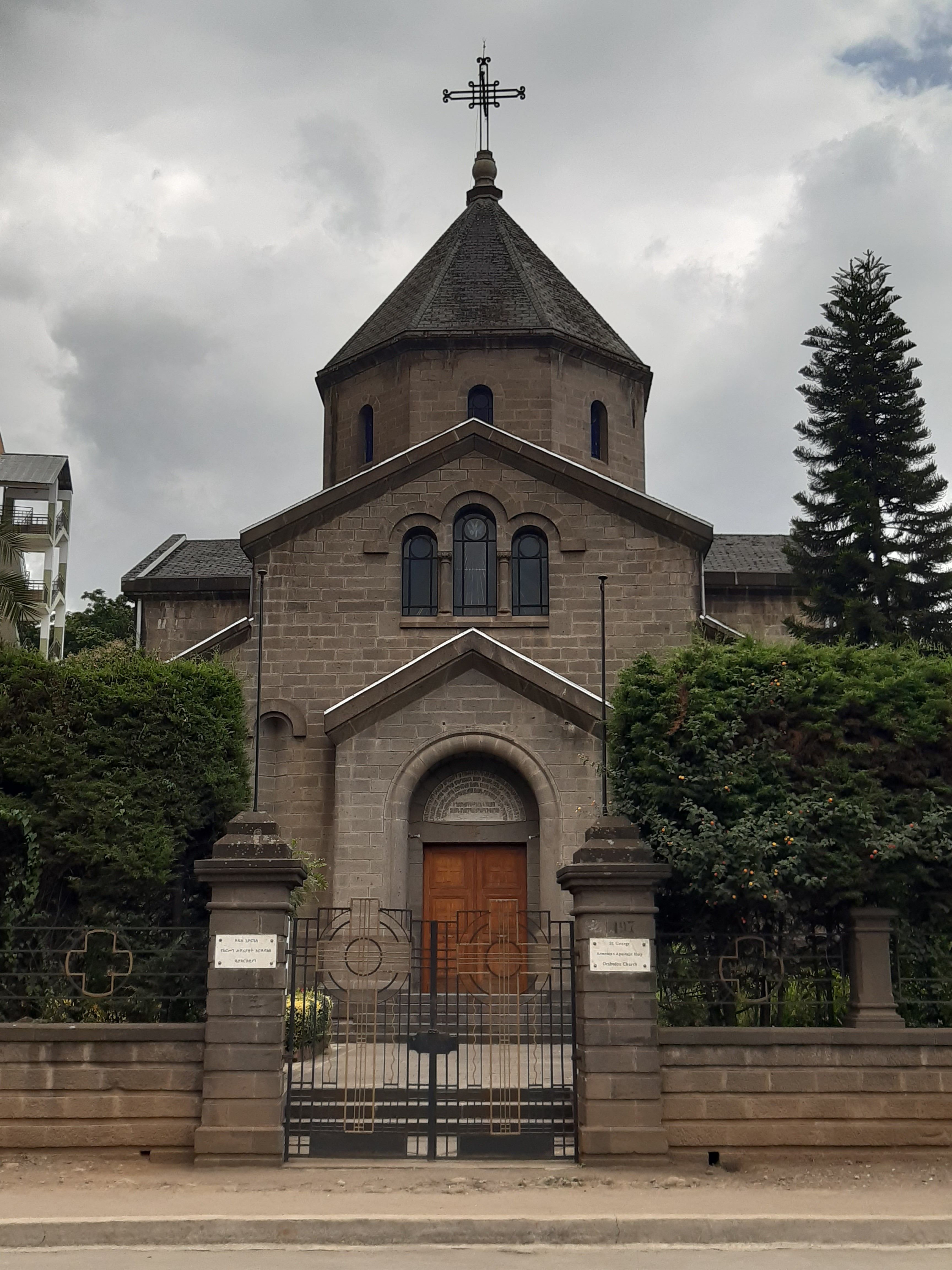 Saint George Armenian Apostolic Church, Addis Ababa, Ethiopia, May 2020